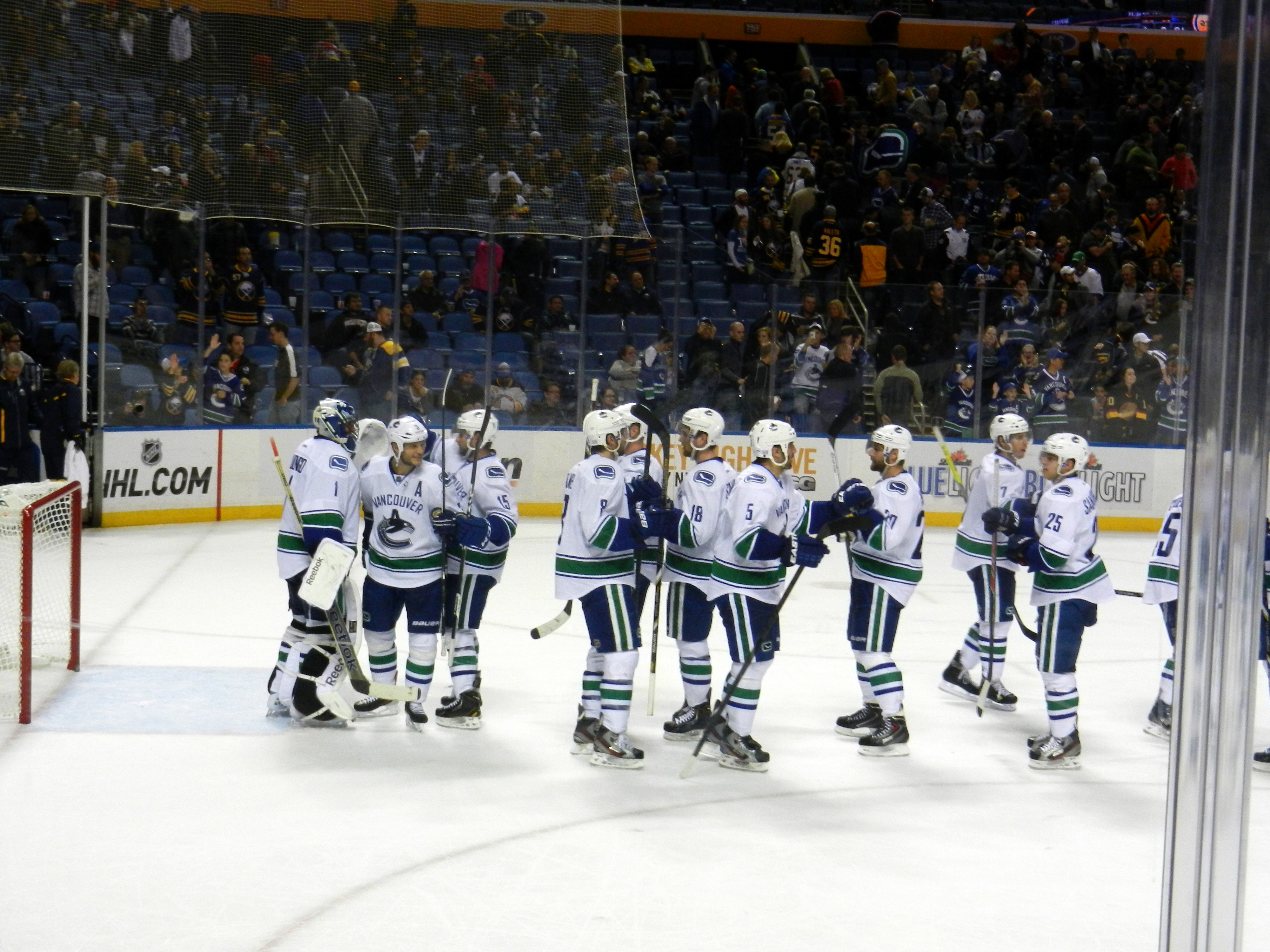 The Vancouver Canucks celebrate a win over the Buffalo Sabres in the 2013–14 NHL season. It was Roberto Luongo's 63rd career shutout giving him sole possession of 15th all-time. Players shown are: Roberto Luongo (1), Kevin Bieksa (3), Brad Richardson (15), Chris Tanev (8), Ryan Stanton (18), Jason Garrison (5), Chris Higgins (20), David Booth (7), and Mike Santorelli (25)